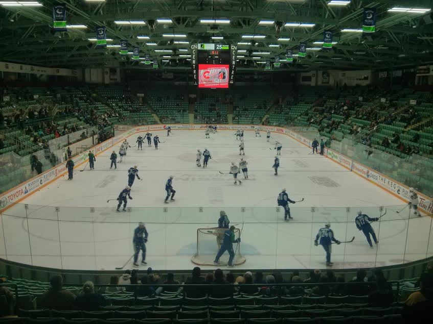 The Canucks attending 2015 Training Camp at CN Centre, in Prince George, British Columbia.